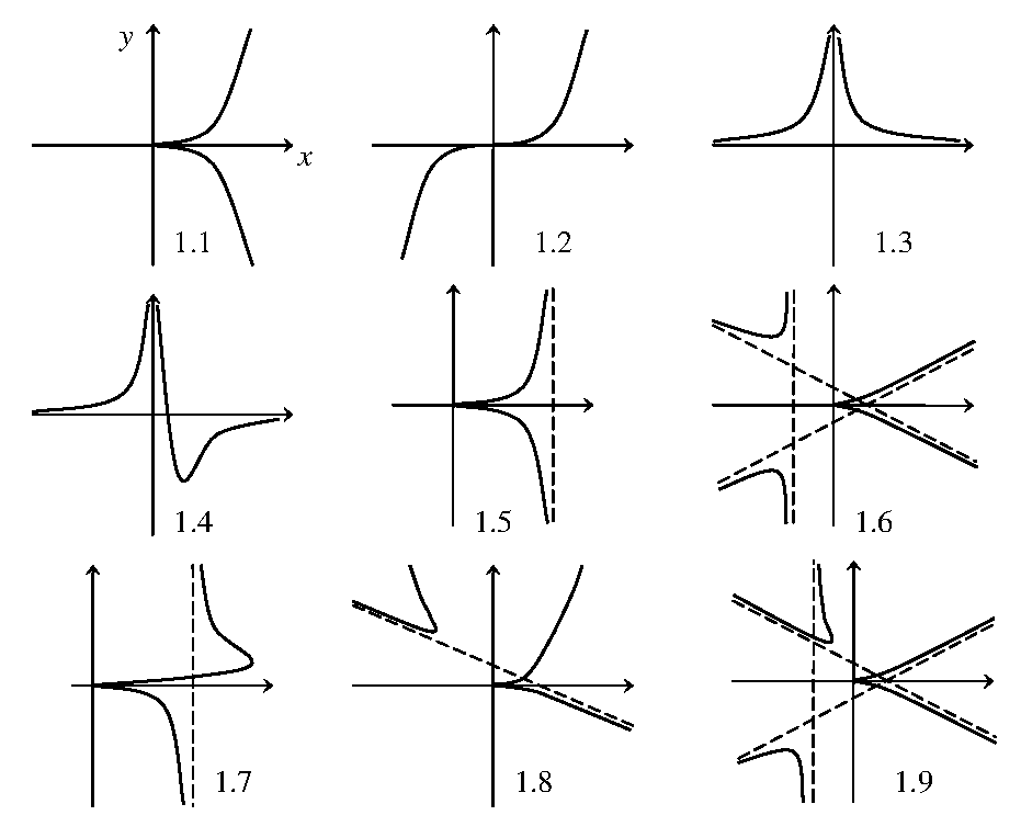 Classes from cubic with casp